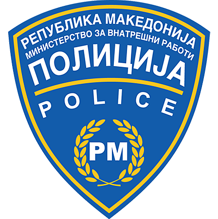 Insignia of the Ministry of Internal Affairs of the Republic of Macedonia.